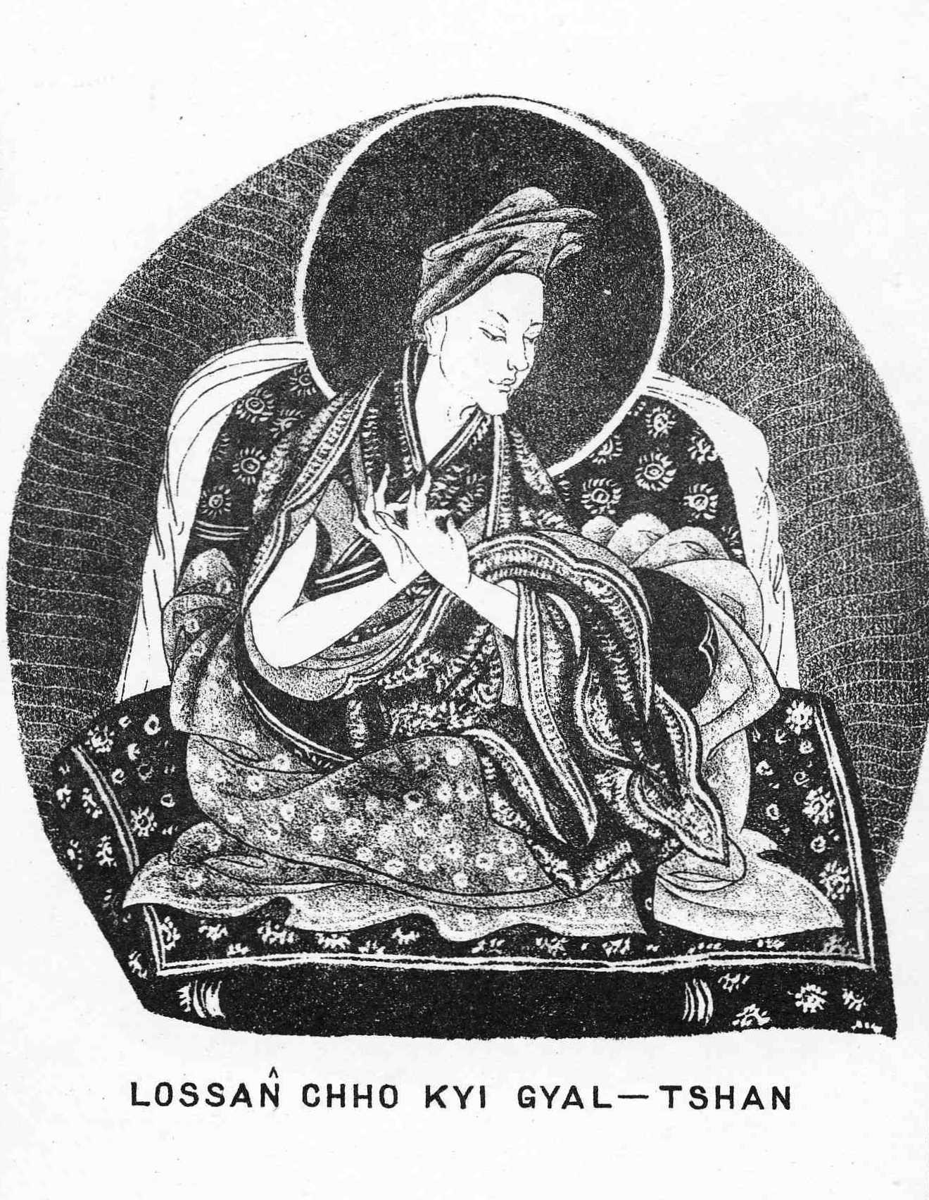 Image taken from a publication by Sarat Chandra Das (1849-1917), "Contributions on Tibet", in the Journal of the Asiatic Society of Bengal Vol. LI (1882), so it is in the public domain. John Hill 04:25, 24 September 2007 (UTC)